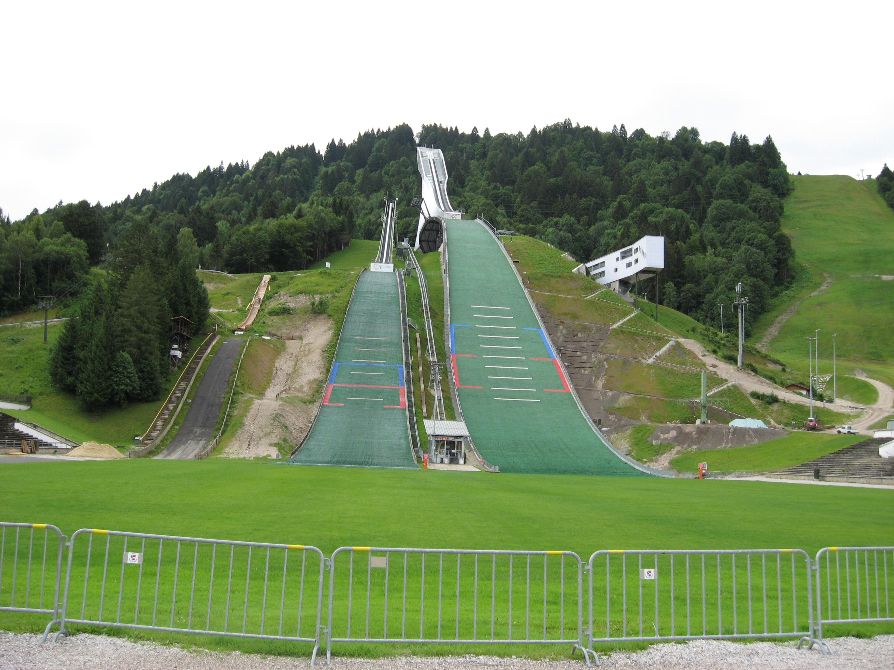 The ski jump